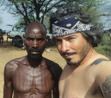 Lars Krutak with Gru, a heavily scarified Hamar man of southern Ethiopia.